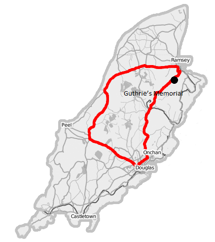 Location of thr Guthrie's Memorial on the Snaefell Mountain Course, Isle of Man